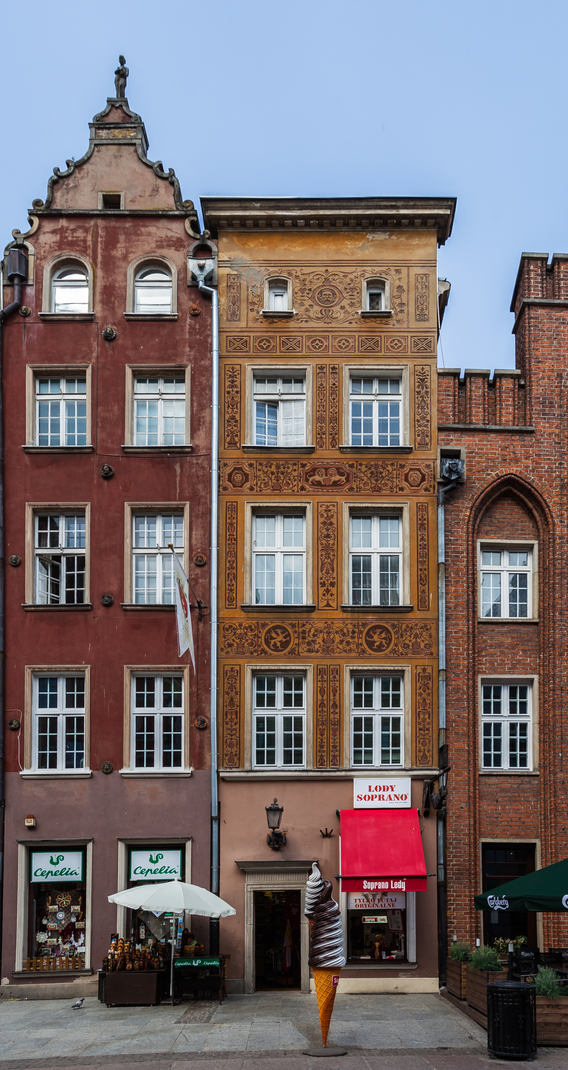 Building in Dluga St 49, Gdansk, Poland